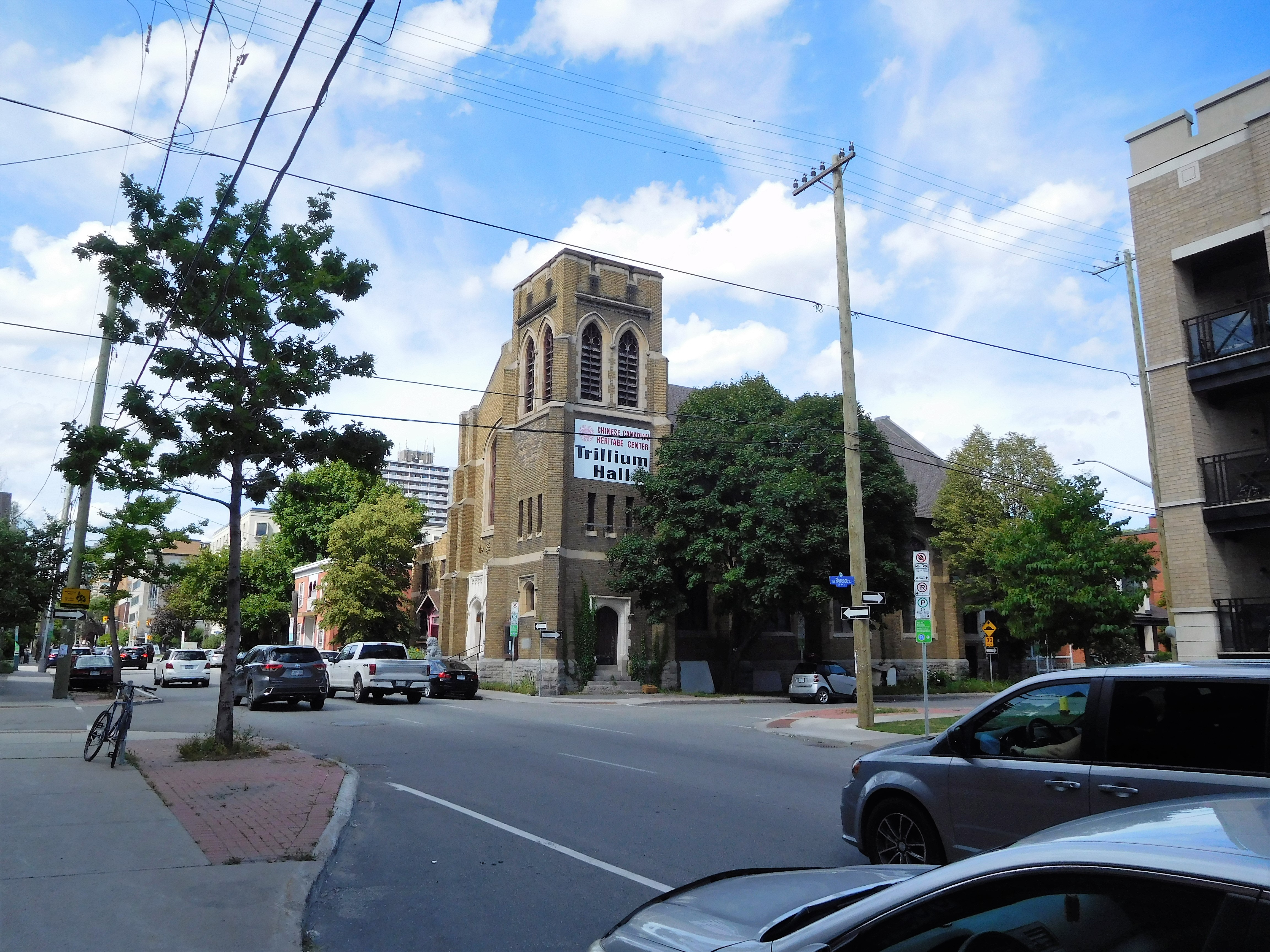 Ottawa Chinese-Canadian Heritage Centre, 397 Kent Street / Florence Street, Ottawa